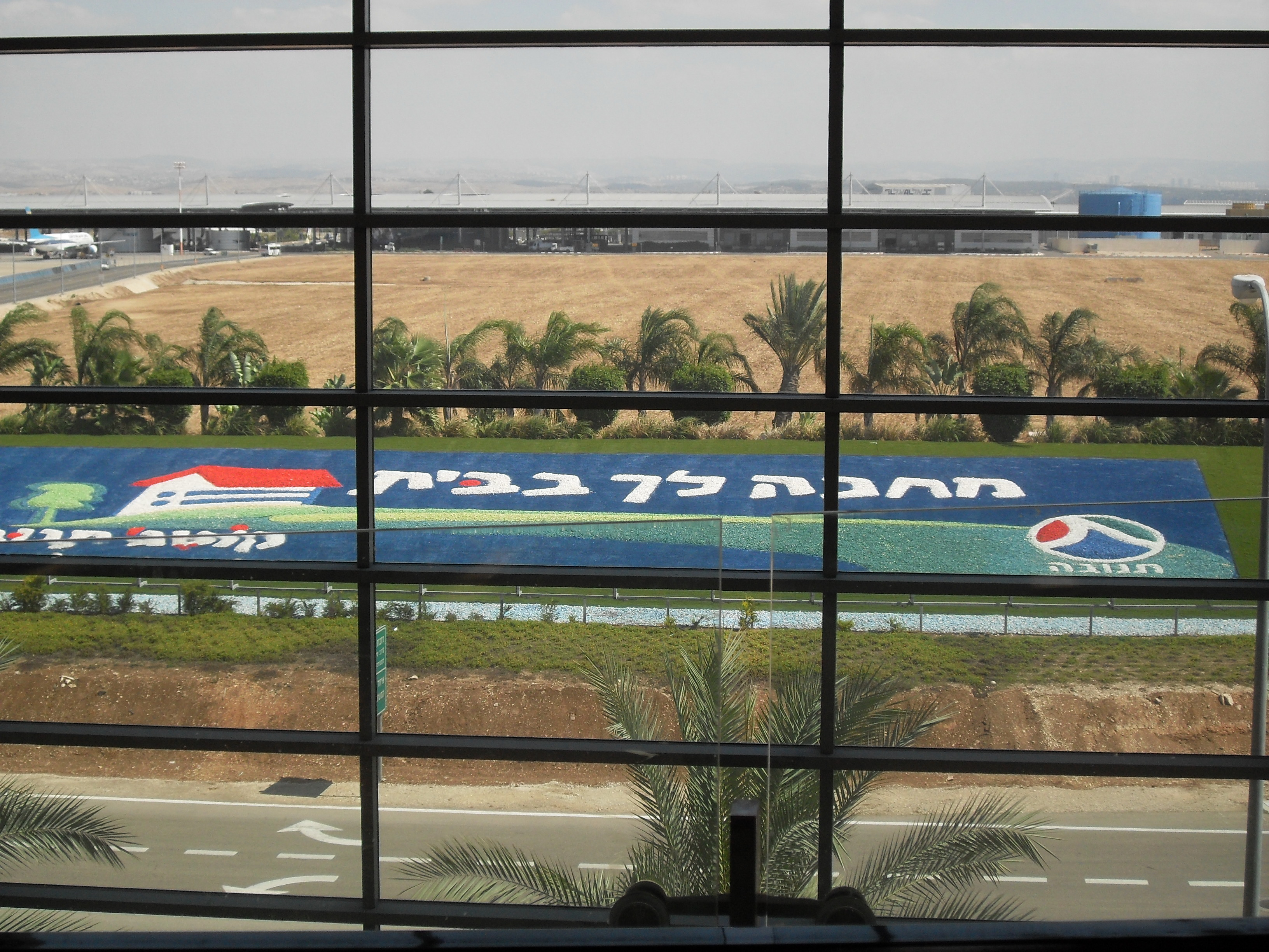 huge advertising mosaic for the well-known Israeli brand of dairy products "Tnuva cottage - waiting for you at home"